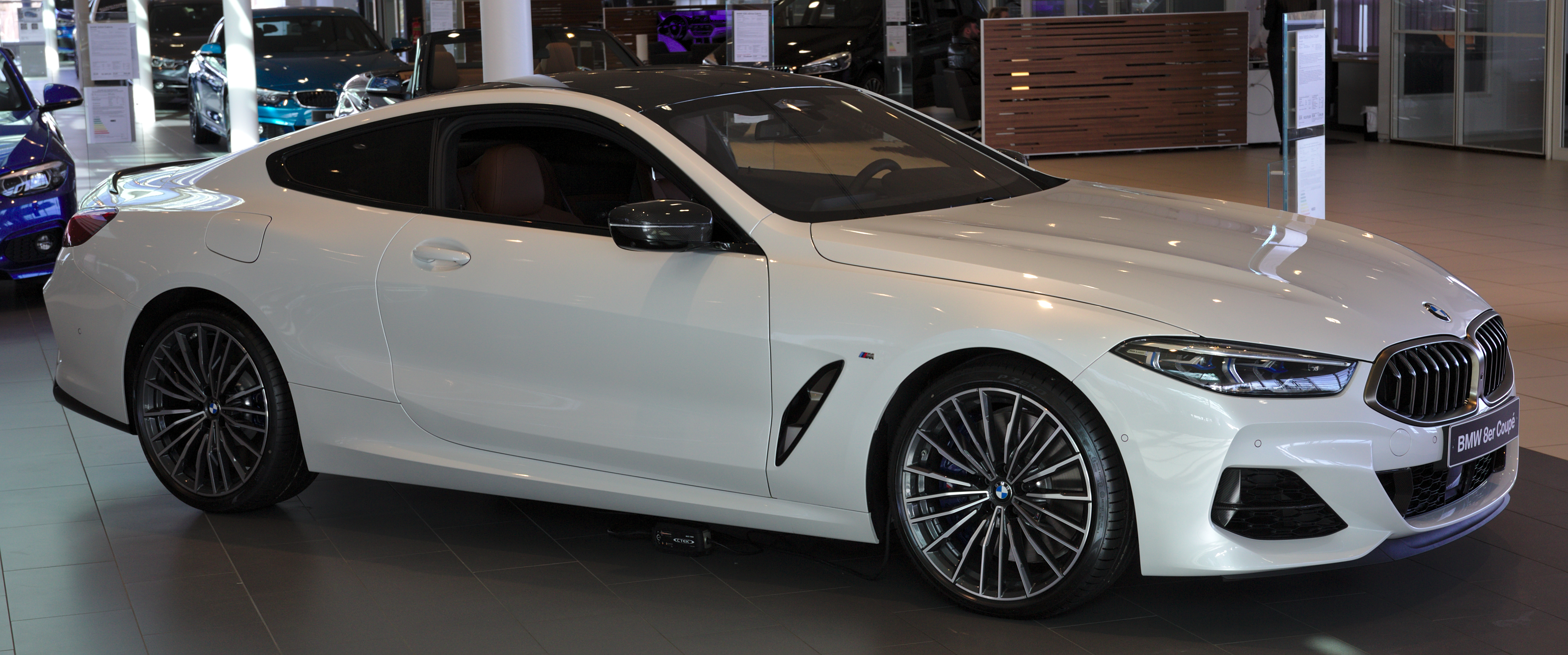 BMW G15 in Stuttgart-Vaihingen